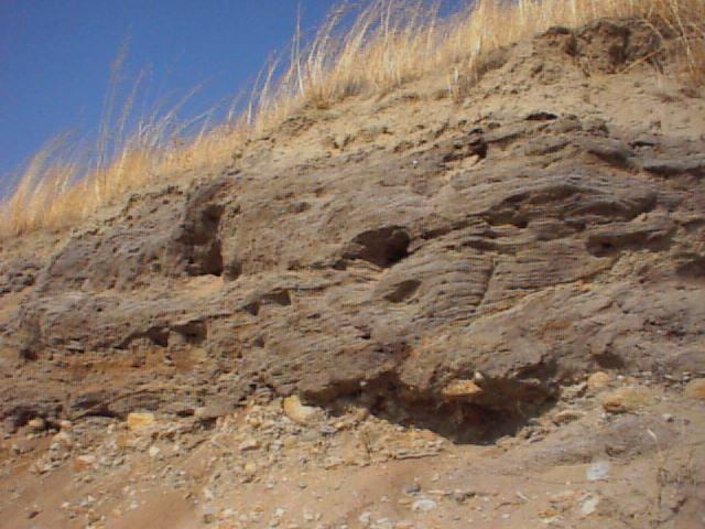 This outcrop of sandstone is near the discovery well at Kern River oilfield, near Bakersfield, CA. The oil bearing formations outcrop at the surface, and oil is found in shallow zones.